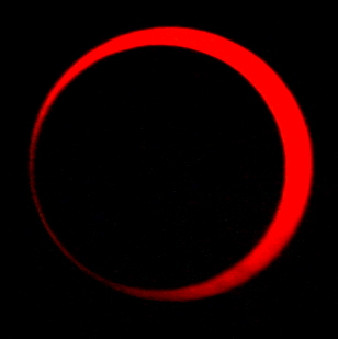 Cropped image of full annular solar eclipse of 15 January 2010 — as seen in Bangui, Central African Republic. At 05:19:04 GMT (6:19 a.m. local time). The bottom 'noise' are clouds.